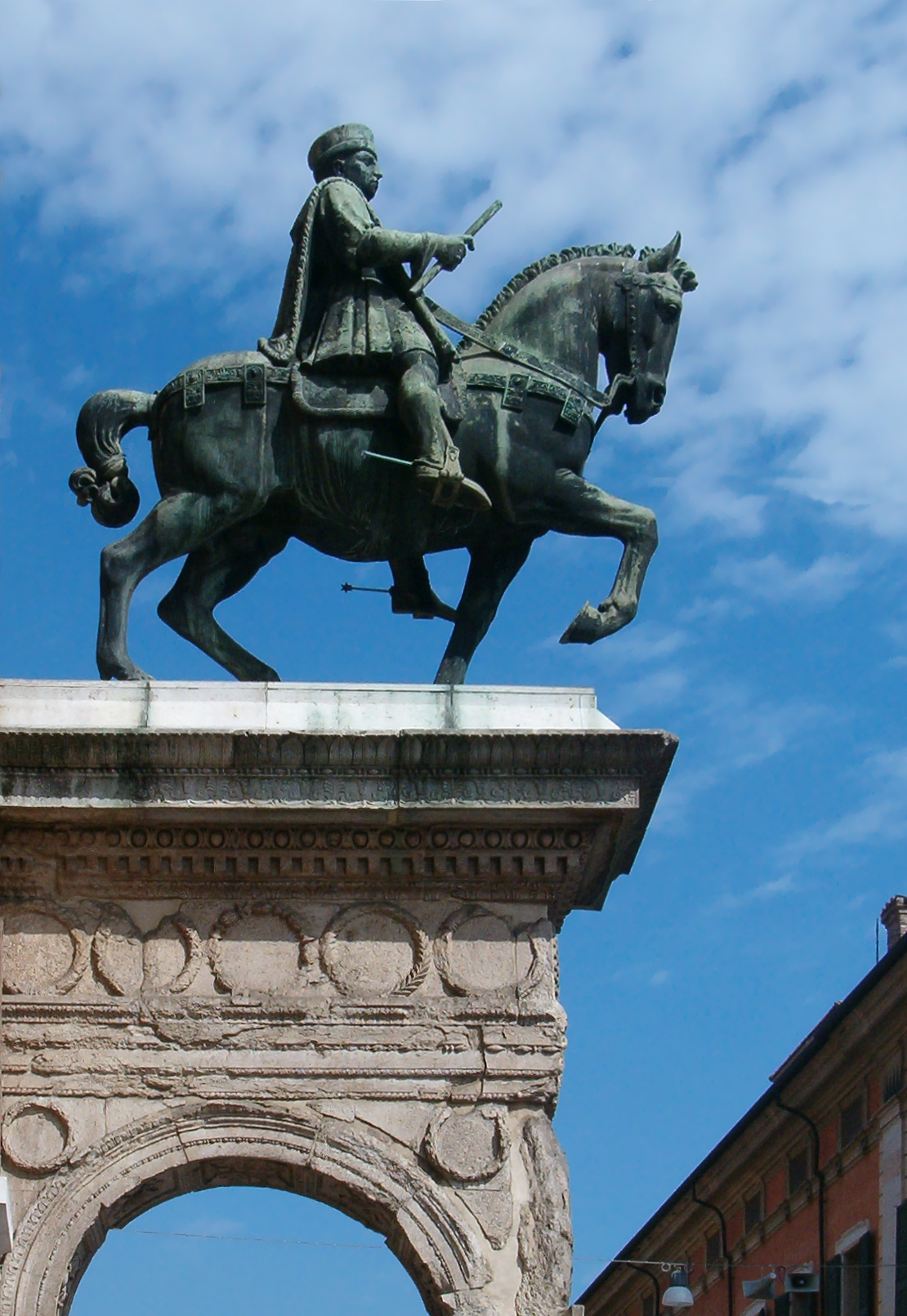 Equestrial bronze monument to Niccolò III of House of Este of 15th century.